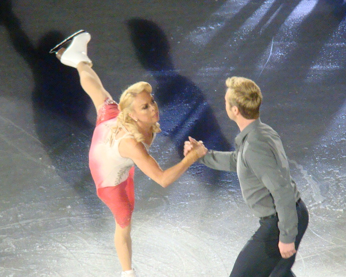 Jayne Torvill and Christopher Dean performing during the Dancing on Ice tour in Manchester M.E.N Arena, 1.30pm Sunday 1st May 2011.